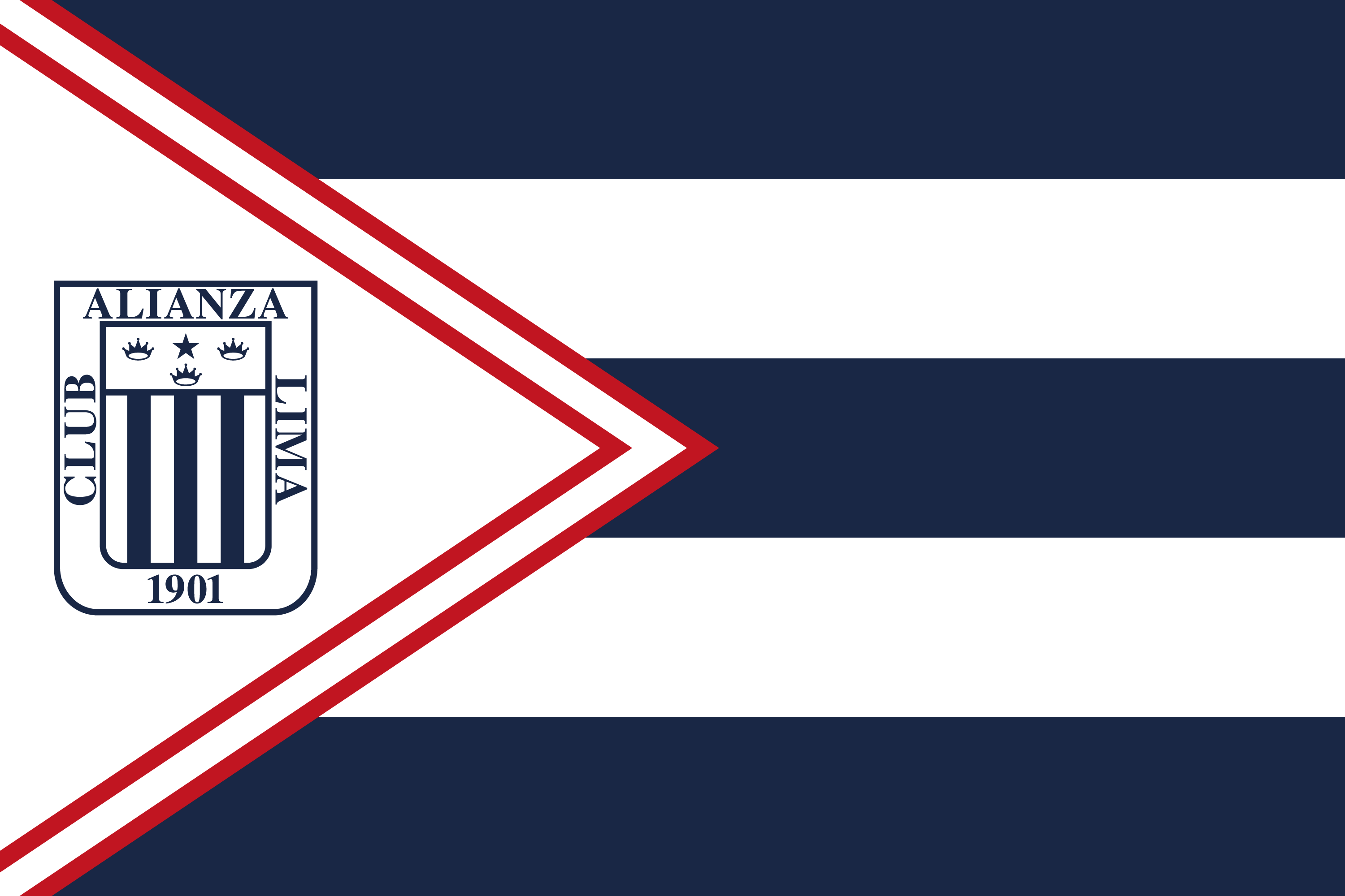 Alianza Lima's Flag Design